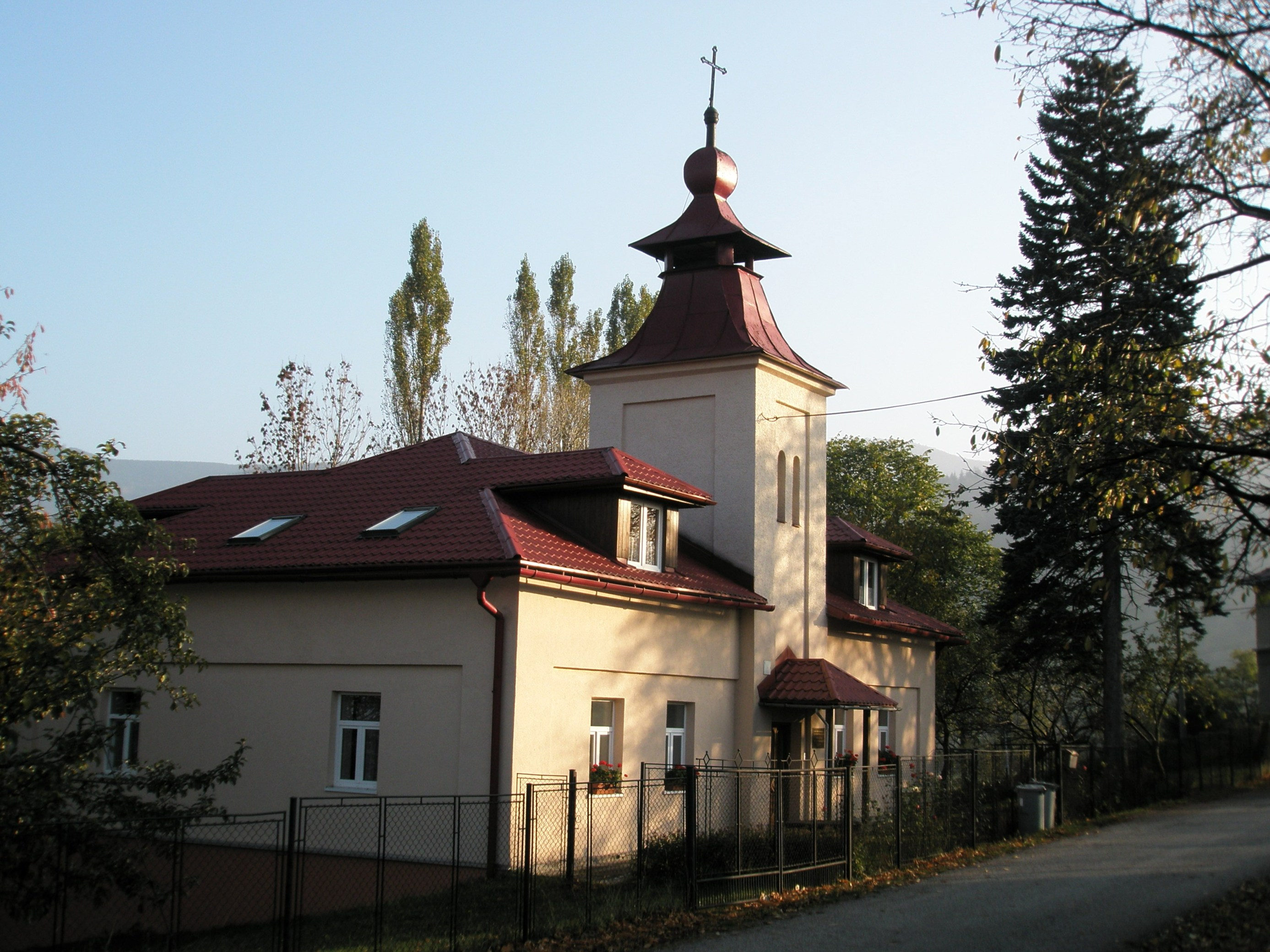 Lutheran rectory in Guty, former Lutheran school (build in 1866, rebuild in 2002)